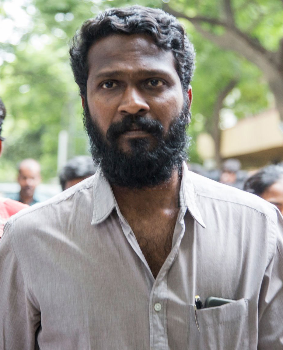 Vetrimaaran Pay Homage to Na Muthukumar